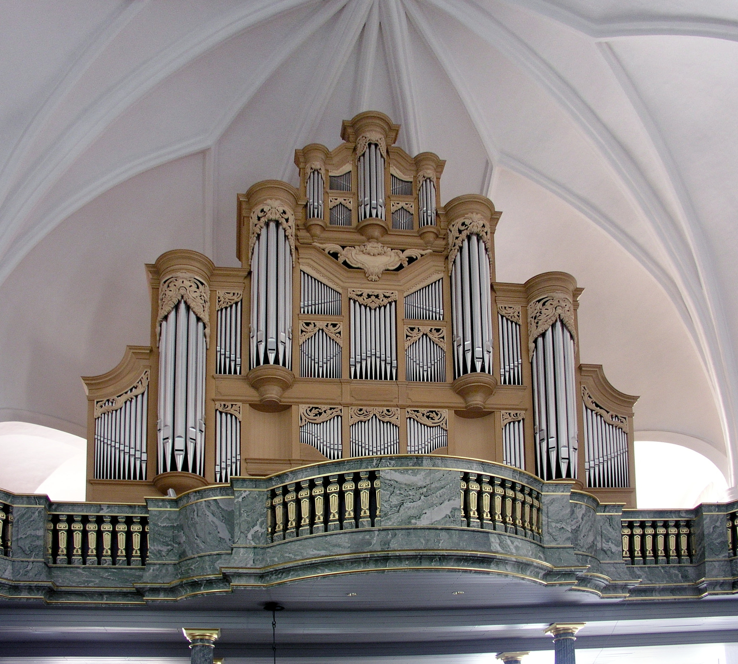 Katarinakyrkan Organ.